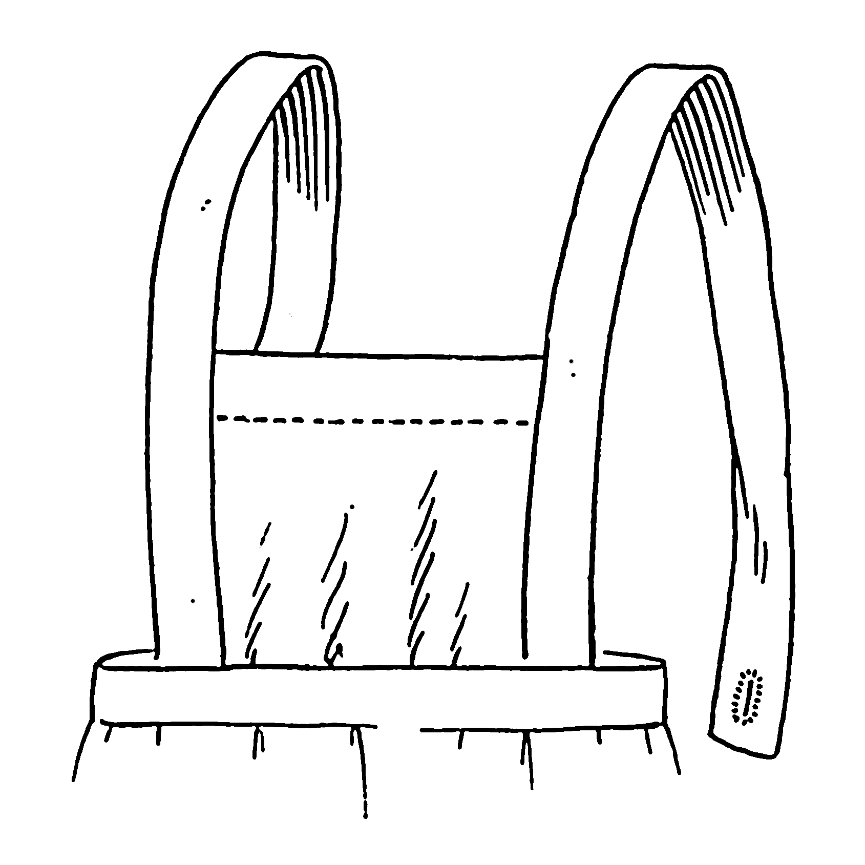 Line art drawing of the bib on a dress.